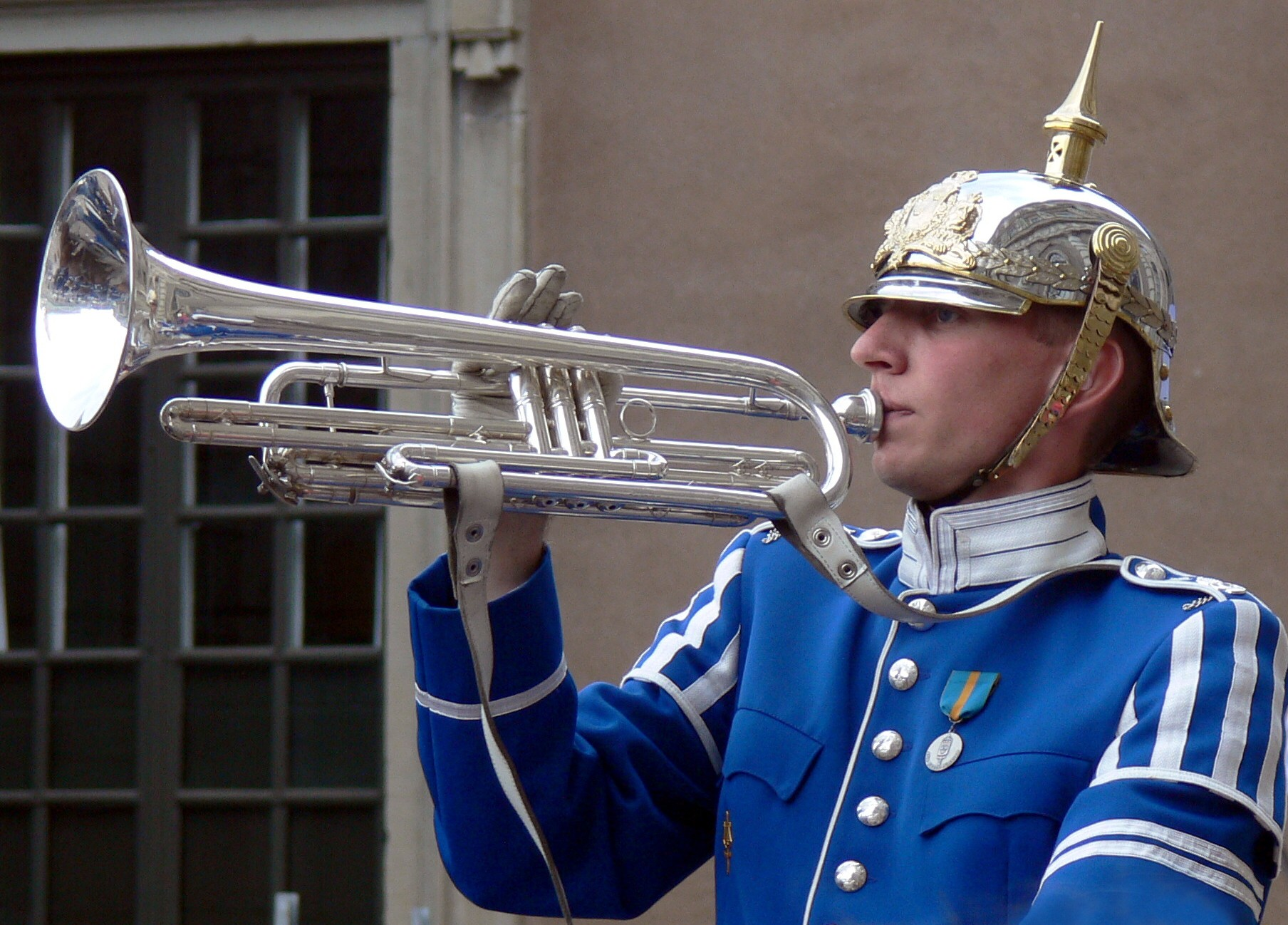 Royal Palace, Stockholm. Changing of the guard: Trumpeteer